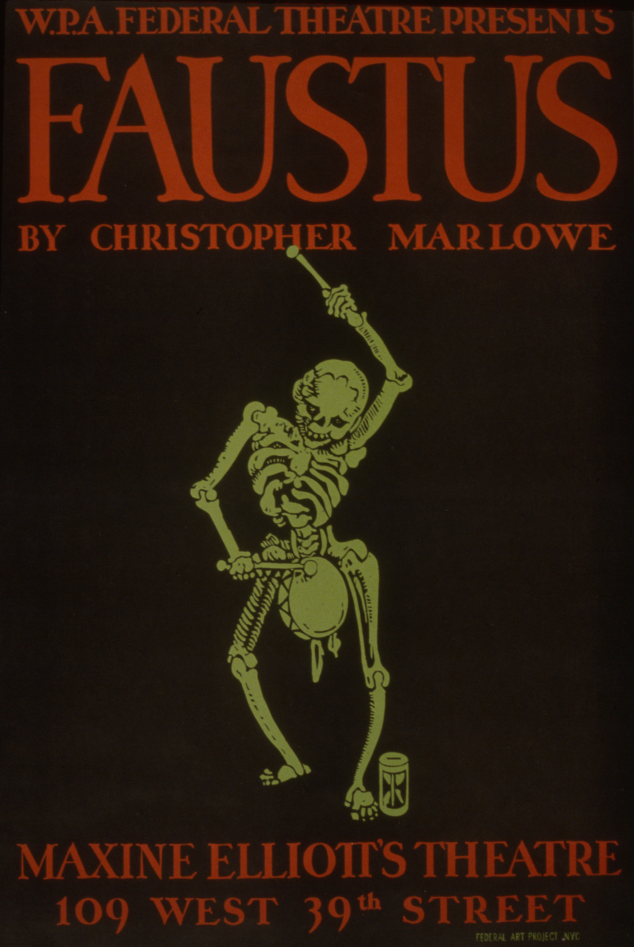 Facsimile of color silkscreen poster for Federal Theatre Project presentation of "Faustus" by Christopher Marlowe (1564-1593) at the Maxine Elliott Theatre, 109 West 39th Street, New York City.